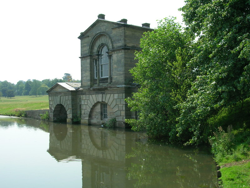 Boathouse, Kedleston Park